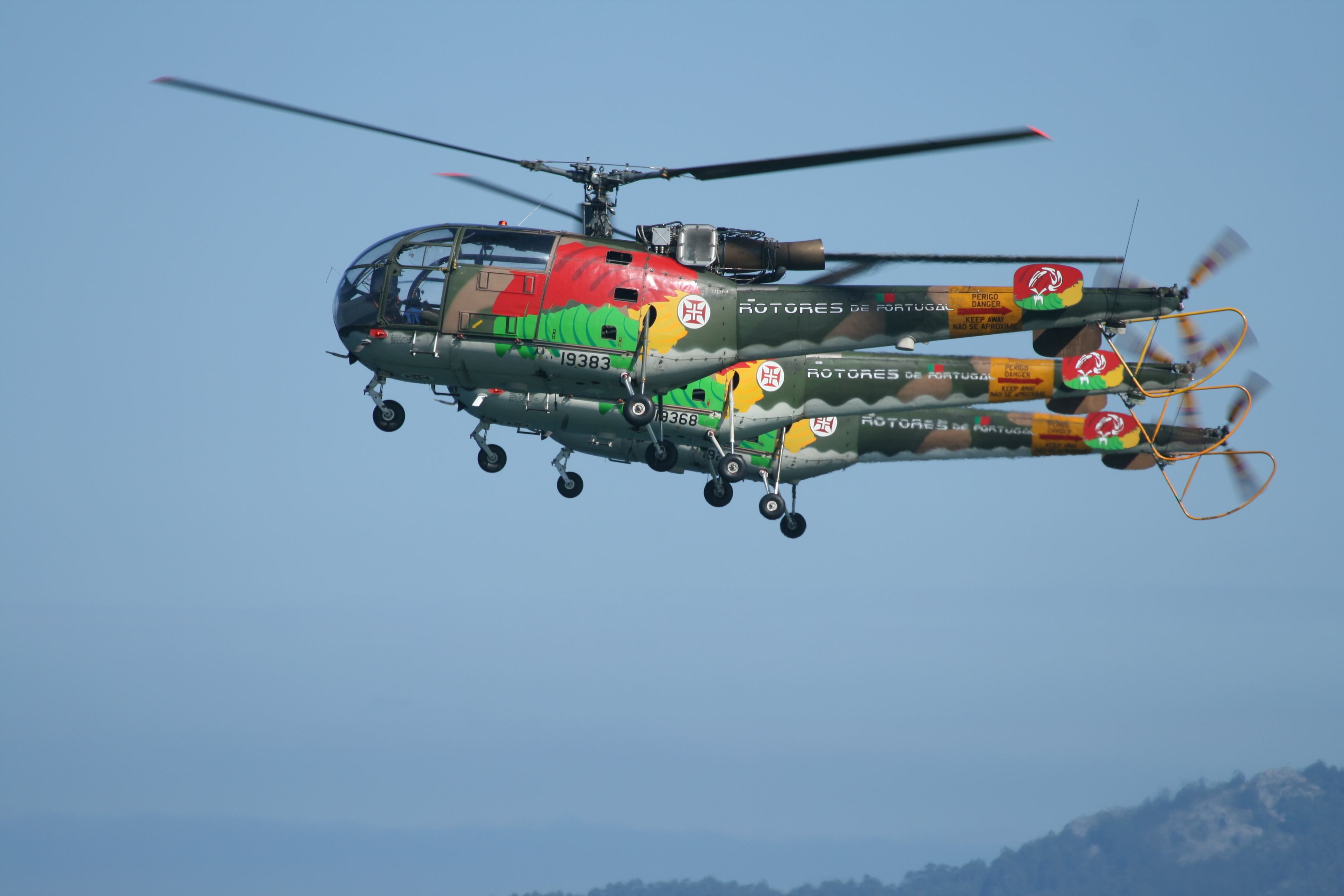 Tres helicópteros Alouette III de la patrulla Rotores de Portugal, de la Fuerza Aérea Portuguesa, durante el Festival Aéreo de Vigo (Galicia, España) Rotors of Portugal. Three helicopters Alouette III of the patrol Rotors of Portugal, of the Portuguese Air Force, during the Airshow of Vigo (Galicia, Spain)